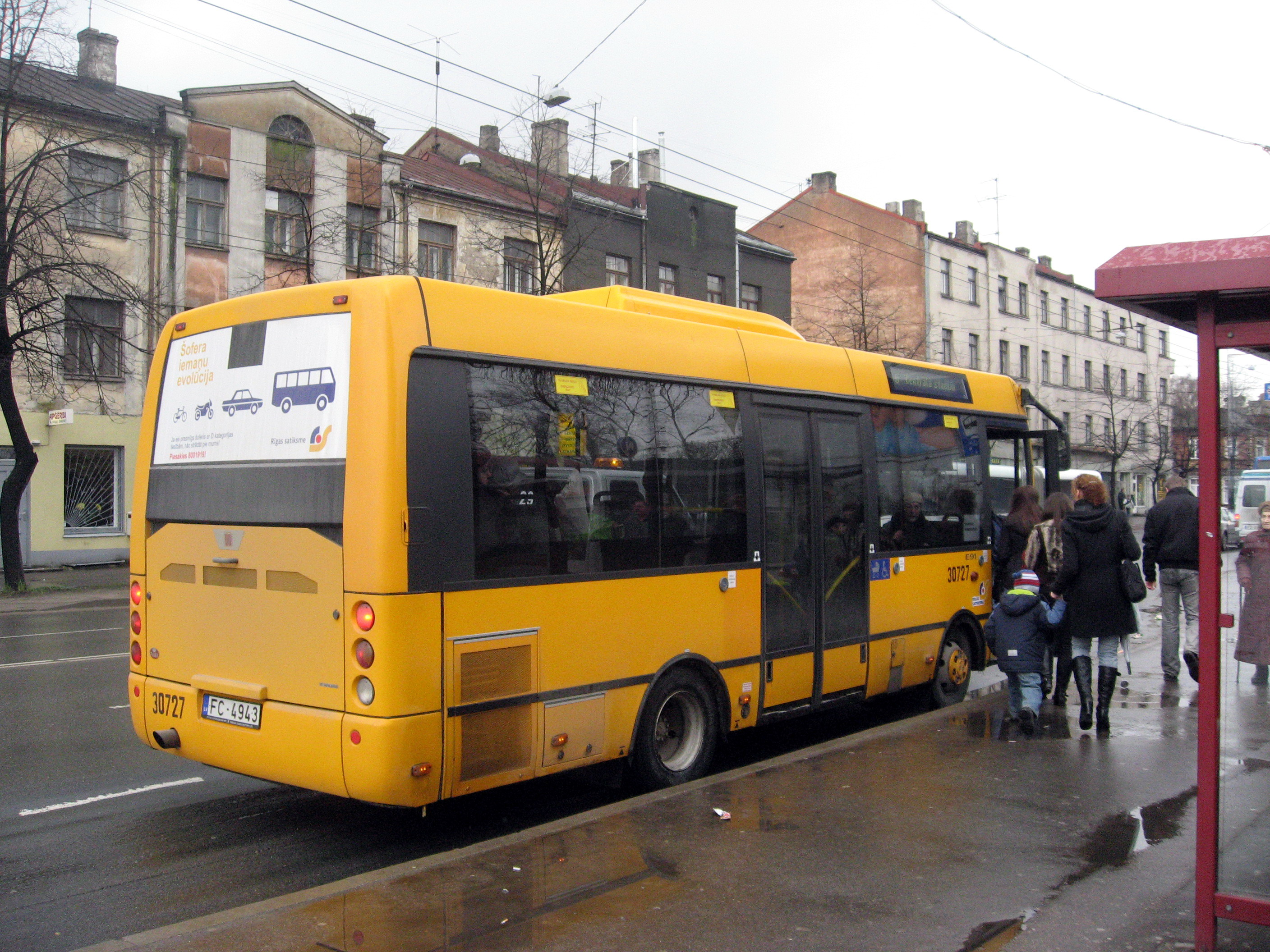 Ikarus E91 bus in Riga, Latvia.